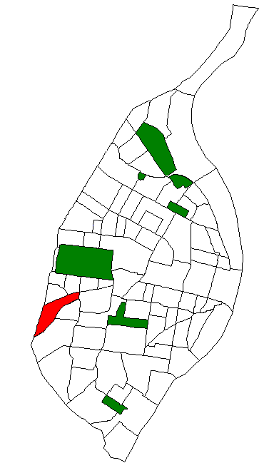 Map of St. Louis Neighborhood #10